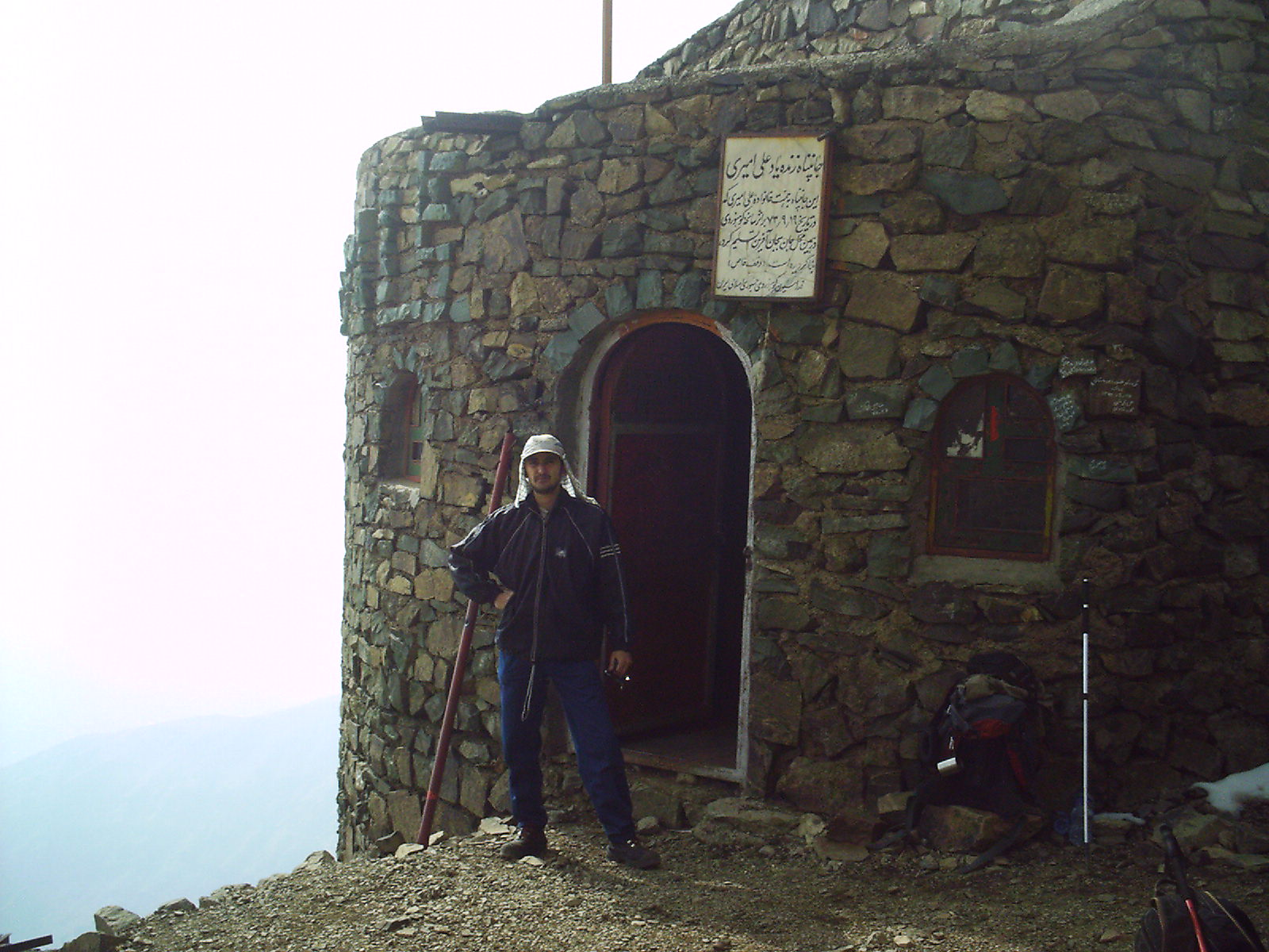 جانپناه امیری